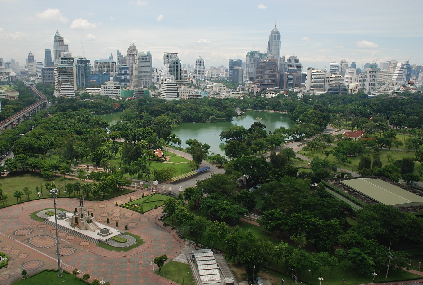 Aerial view of Lumphini Park, Bangkok. Taken from The Dusit Thani Hotel, Bangkok, Thailand.